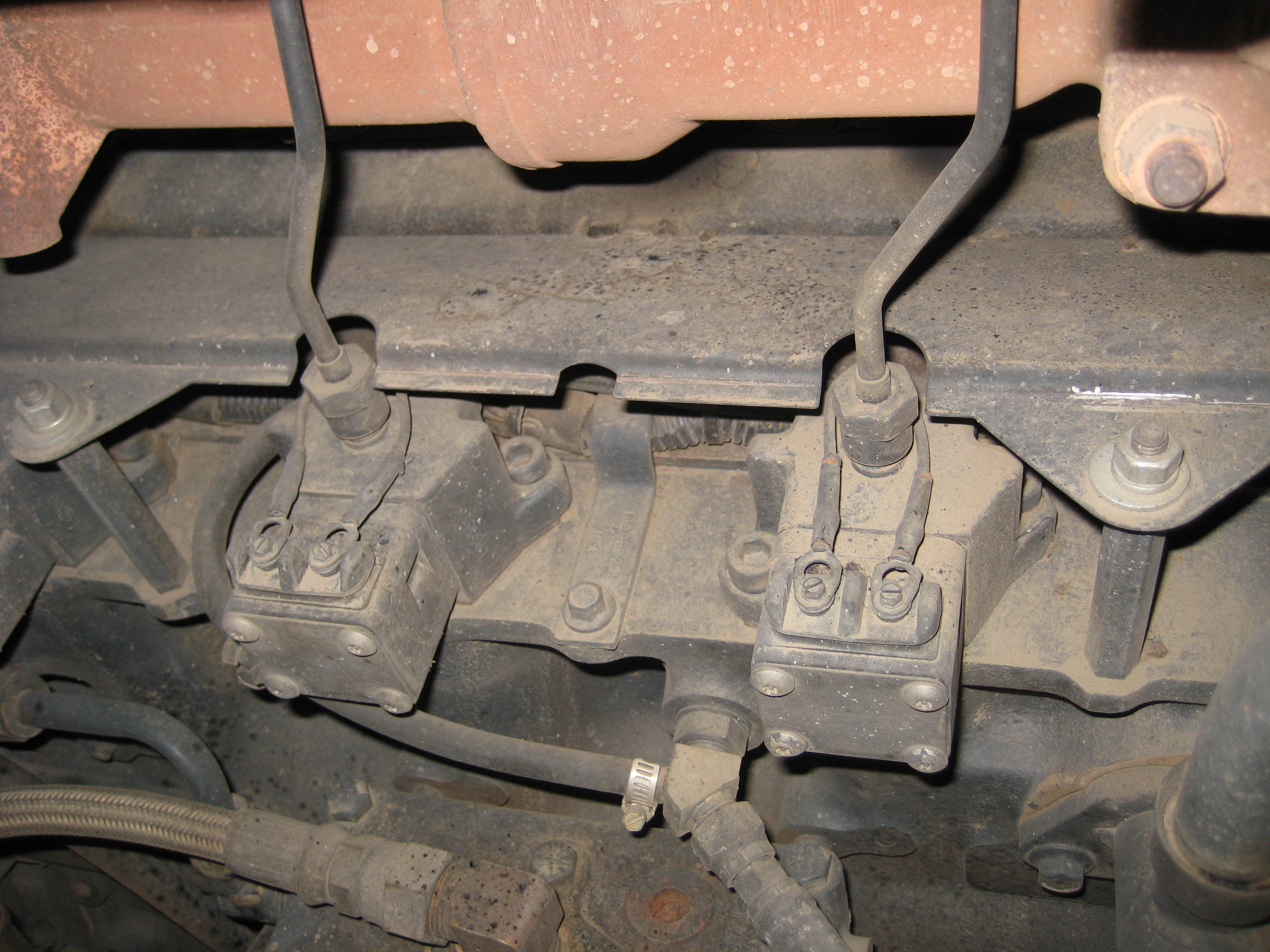 A view of Bosch Unit Pump fuel injection system on Mack E7 diesel engine.